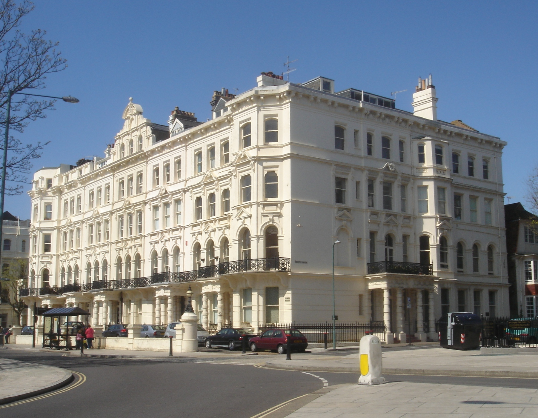 7–19 Palmeira Mansions, Church Road, Hove, City of Brighton and Hove, England. Built in 1883-84 to the design of H.J. Lanchester. Listed at Grade II by English Heritage (NHLE Code 1187548)